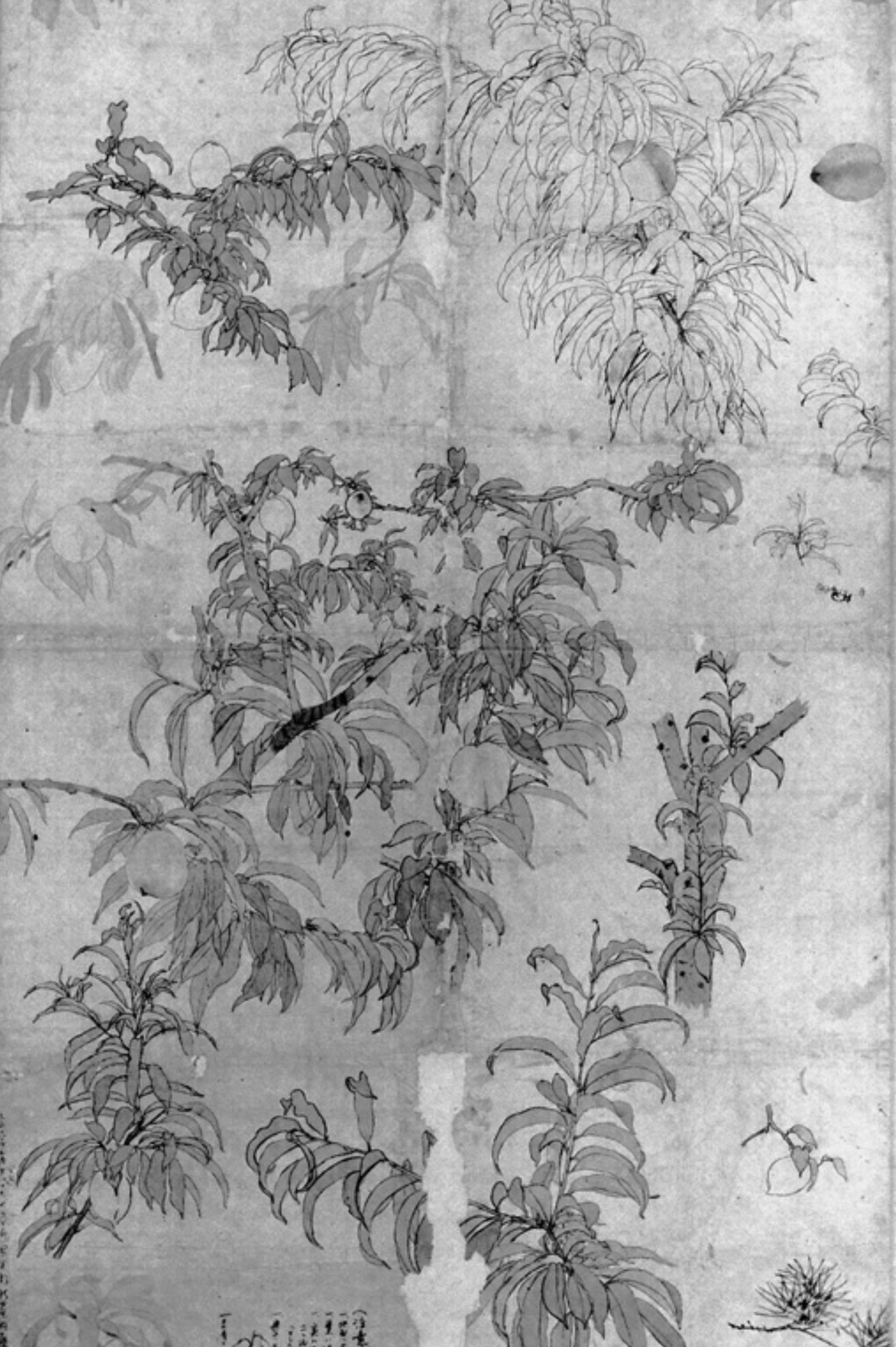 Kaneda Kazuo: Peaches (predrawing)